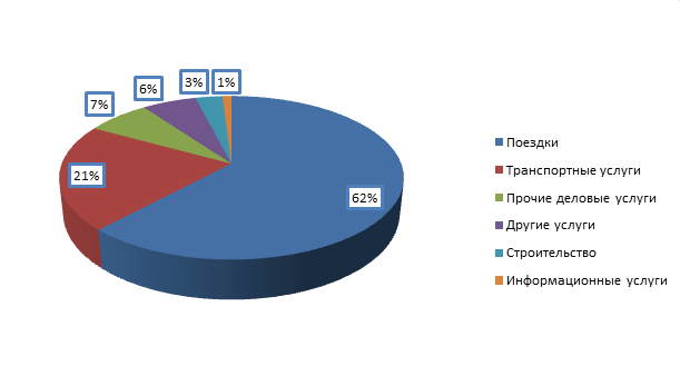 Structure of imports of services to Armenia in 2016, %